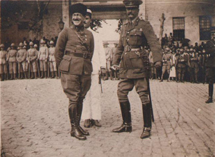 Historic photo